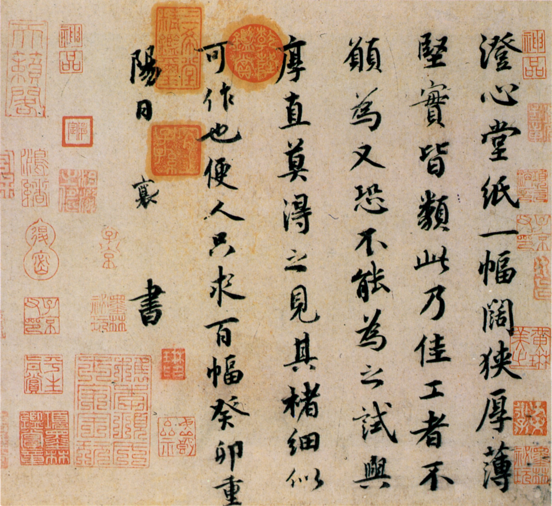 Scan of a letter written on Cheng Xin Tang paper by the Chinese Song Dynasty calligrapher Cai Xiang sometime between the years 1021-1067. Length: 24.7 cm Width 27.1 cm. Located in the National Palace Museum Taipei, Taiwan.